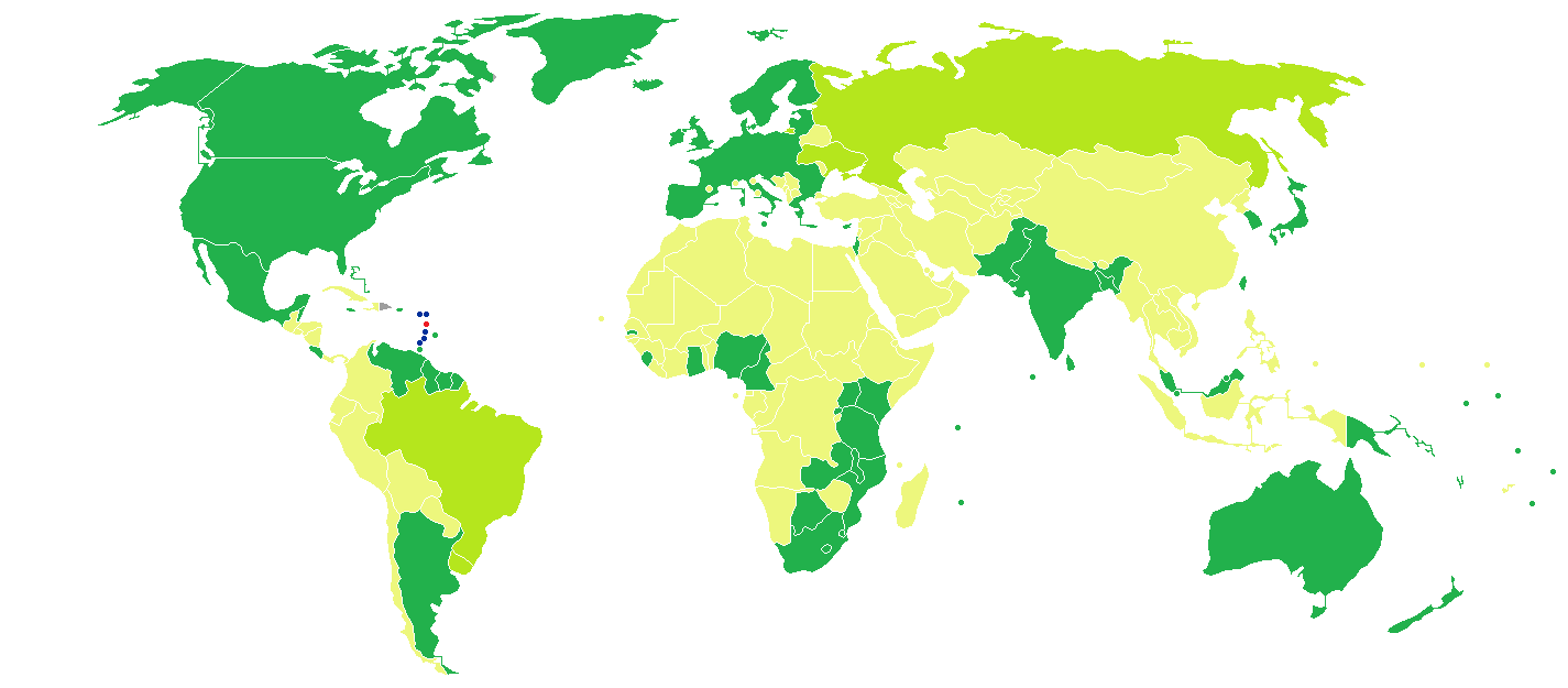 Visa policy of Dominica Dominica Freedom of movement Visa-free entry for 6 months Visa-free entry for 3 months Visa-free entry for 21 days, for Cuba 28 days Visa required